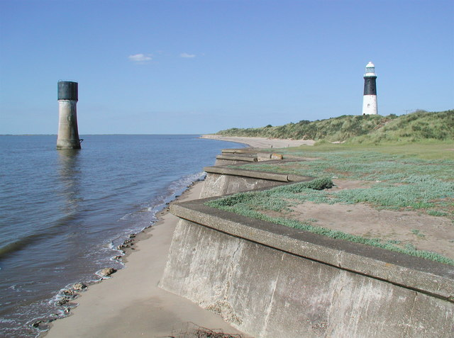 Lighthouses at Spurn Point, East Riding of Yorkshire, England.The first reference to a lighthouse on Spurn dates back to 1427 when a hermit, William Reedbarrow, was granted dues from passing ships to complete a lighthouse he was building there. In the late seventeenth century high and low lights were erected on what was then the tip of the spit, probably about two miles north of the present tip. The low light had to be rebuilt several times but the high light lasted until the late eighteenth century when John Smeaton, the celebrated engineer who had built the Eddystone lighthouse in 1759, designed and built two new lighthouses at Spurn under the direction of the Hull and London Trinity Houses. In 1852 a new low lighthouse was built on the Humber foreshore and in 1895 the high one was also replaced because there was evidence that the foundations of Smeaton's lighthouse were giving way. The low lighthouse was then redundant since lights shone out at several levels from the new one, and it was used to store explosives for a while before being topped by a water storage tank. The high lighthouse shone out over Spurn until 1985 when modern technology meant that it too became redundant [information provided by ].